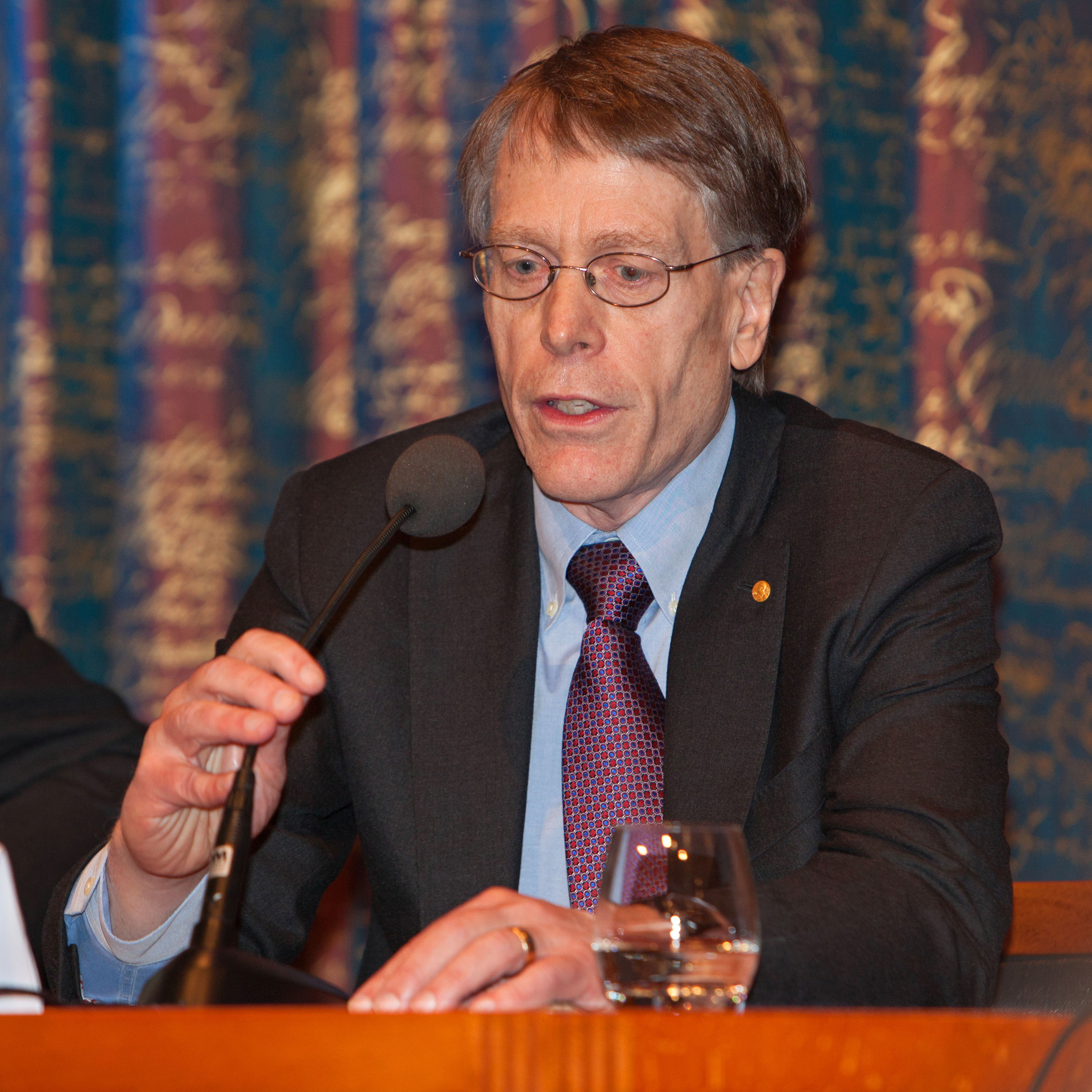 Nobel Laureates 2013 press conference at the Royal Swedish Academy of Sciences in December 2013